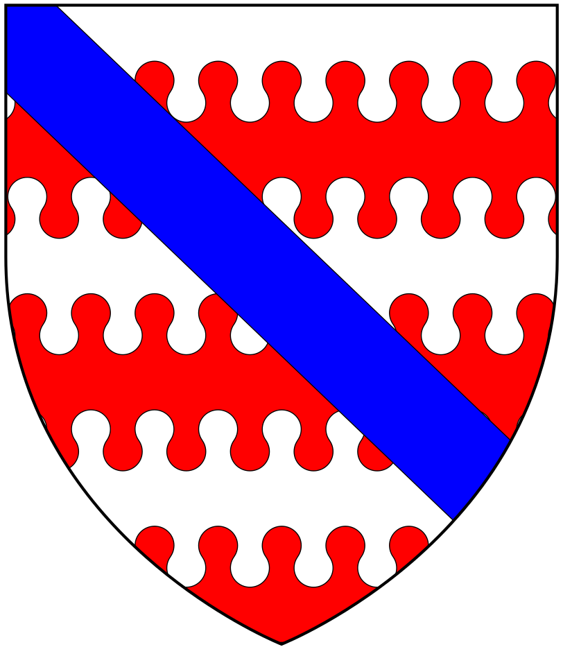 Arms of Amory of Whitechapel, Bishops Nympton, Devon: Barry nebulee of six argent and gules, over all a bend azure. (Source: Heraldic Visitation of Devon, 1620, ed. Vivian, 1895, p.15). These are the arms of the prominent d'Amory family, which survive in the 14th century stained glass window of the choir of Tewkesbury Abbey (see File:Stained glass in Tewkesbury Abbey (4427).jpg), the d'Amory family being connections of the Despensers, who as Lords of Glamorgan had a special connection with that Abbey, founded by Robert FitzHamon (d.1107), 1st Lord of Glamorgan. (see Fourteenth Century England, Volume 5 By Nigel Saul, pp.84-5[1])